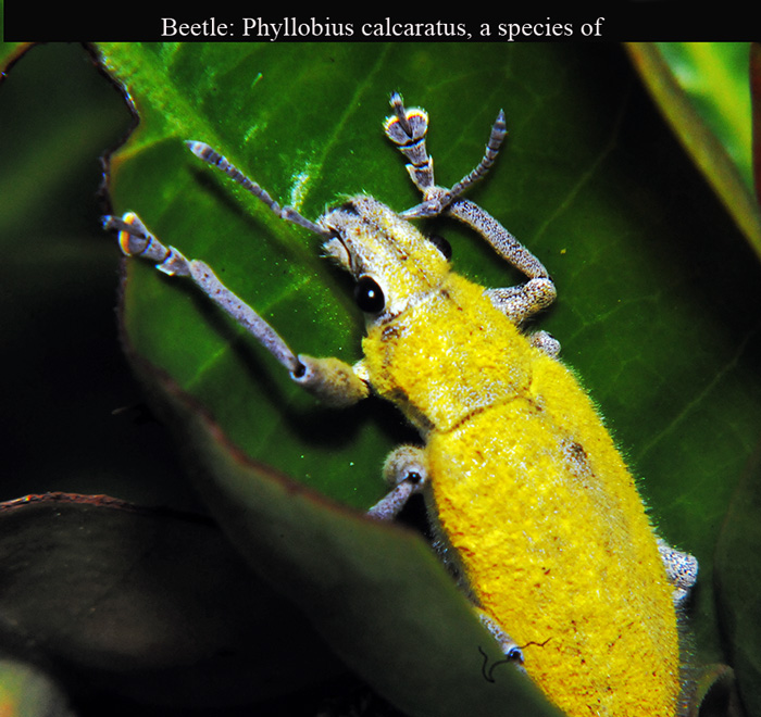 Probably male Hypomeces species, maybe H. rusticus. It was hiding in leaves avoiding strong winds that was blowing at the time. Taken in Subang, Shah Alam, Malaysia on a windy (24th August 2009) evening.